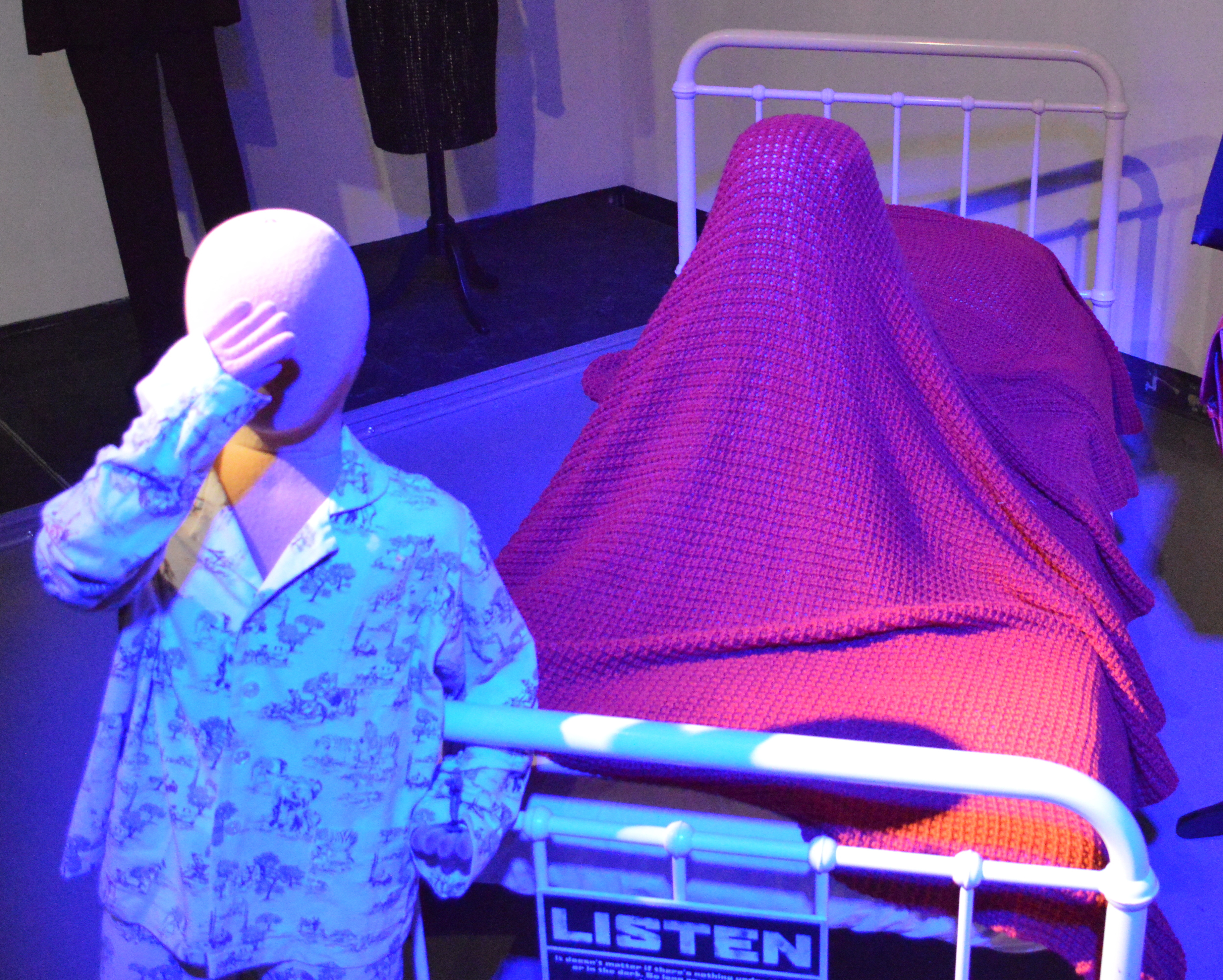 A couple of the props from the 2014 story, "Listen" Doctor Who Experience